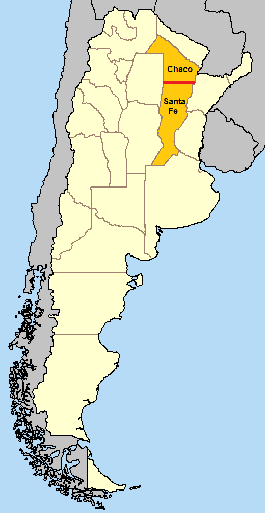 Map showing the location of the 28th parallel south, defining the border between Argentinian provinces This map violates legal regulations Argentina: Ley de la Carta [Law No. 22963].